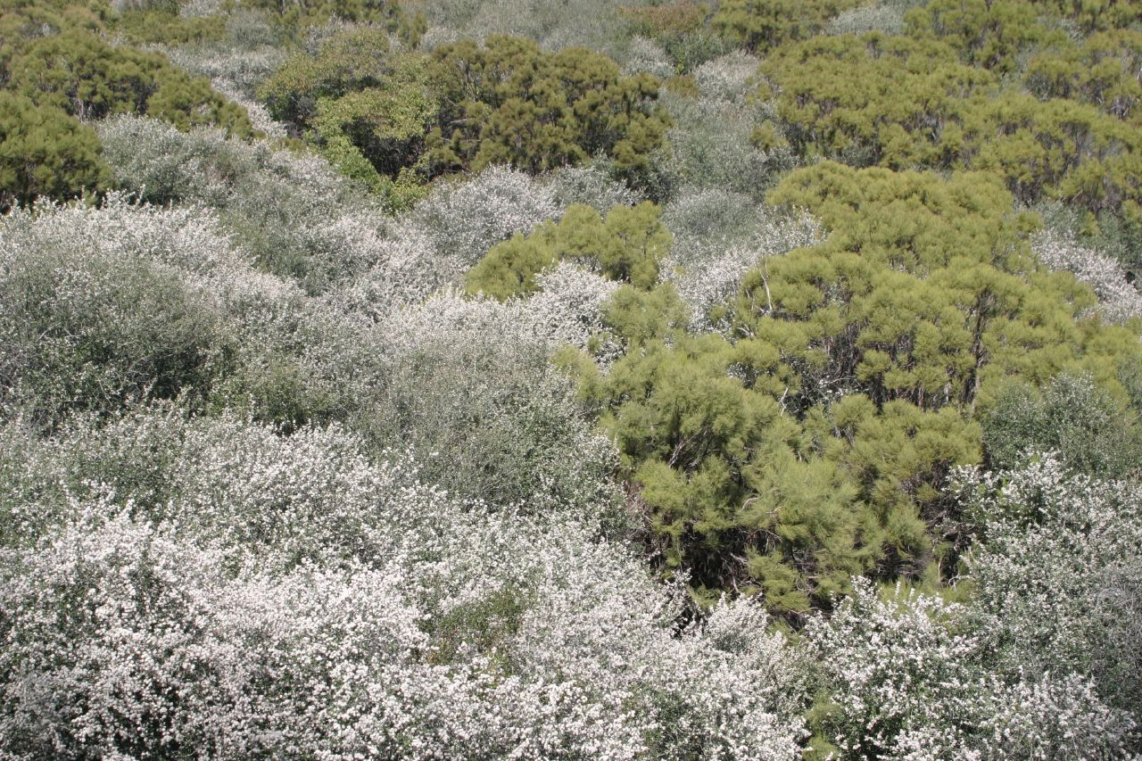 Adenostoma sparsifolium and Ceanothus megacarpus, upper Stunt Canyon, Santa Monica Mountains